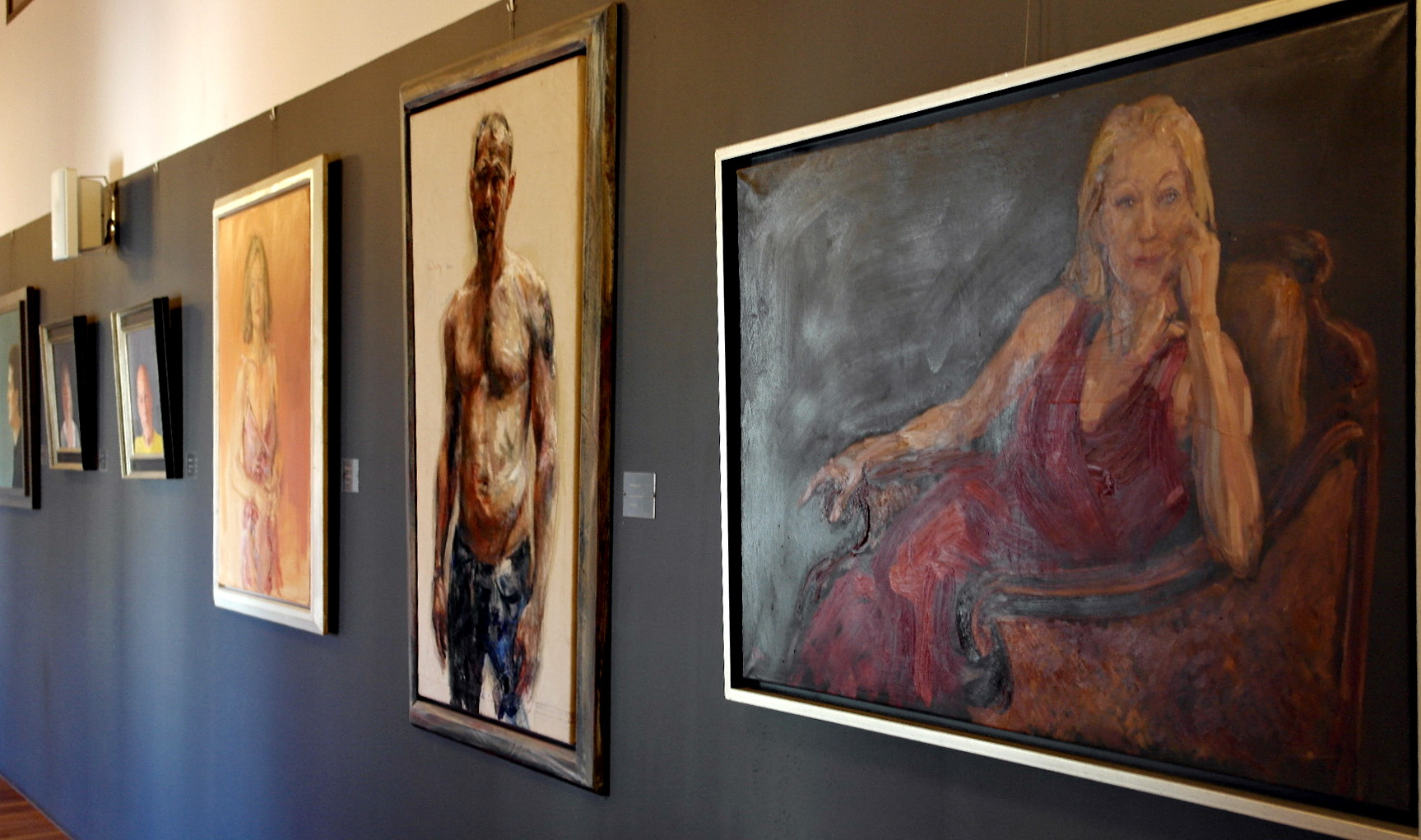 Amsterdam, the Netherlands. Painted portraits of Dutch actors in a corridor in Stadsschouwburg leading from the old building to the new Rabo Zaal. From right to left: Wil van Kralingen (Theo d'Or winner 2007), Hans Kesting (Louis d'Or winner 2008) and Elsie de Brauw (Theo d'Or winner 2006).